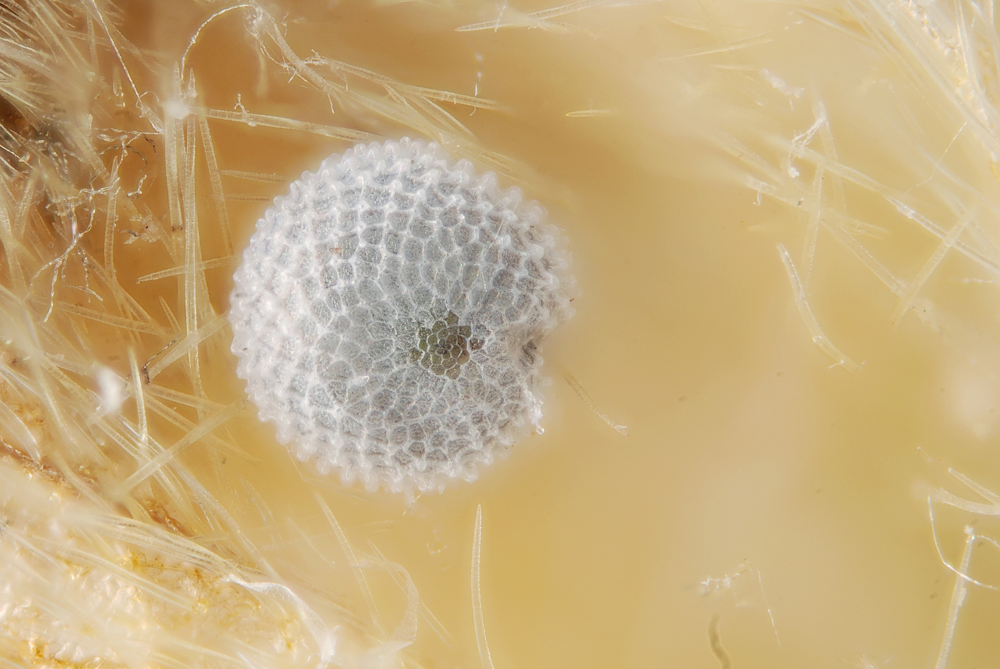 Egg of the butterfly Cupido minimus on its host plant Anthyllis vulneraria. Focus stack of 23 pictures merged with the software enfuse. 10x achromatic finite conjugate nikon microscope objective on bellow. butterfly butterflies insect eggs Lycaenidae Lepidoptera rhopalocera